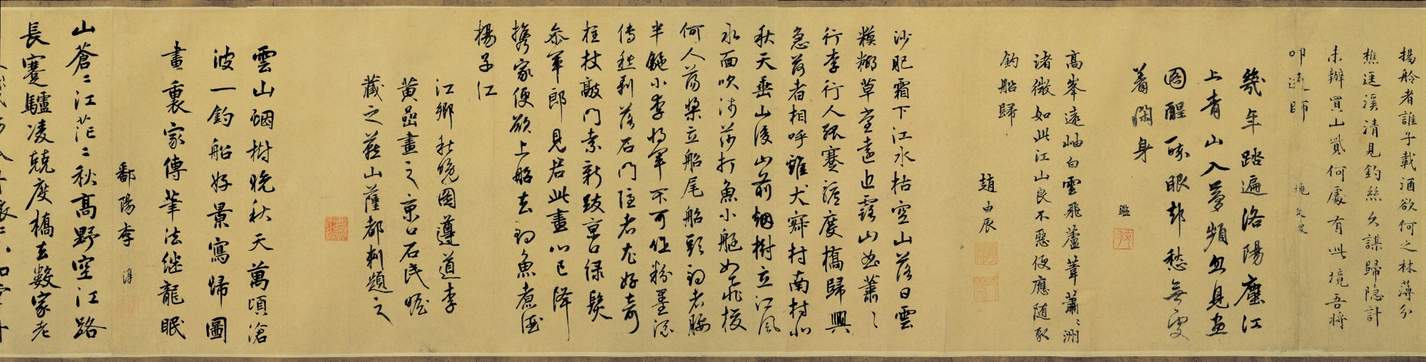 Sadula. Colophon to Li Shixing's River Village on an Autumn Evening,Yuan dynasty (1271–1368), National Palace Museum, Taipei